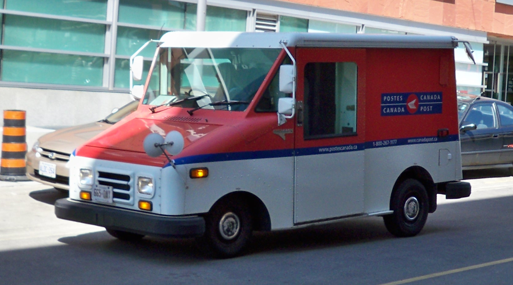 A right-hand-drive vehicle operated by Canada Post (Canada drives on the right). The extra mirrors placed on the vehicle's left side compensates for the driver's position.